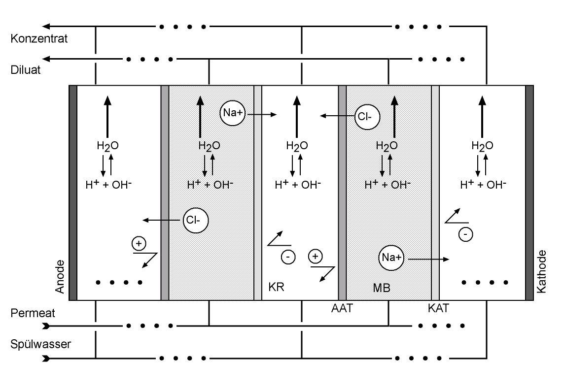 schematic view: EDI (electrodeionisation)